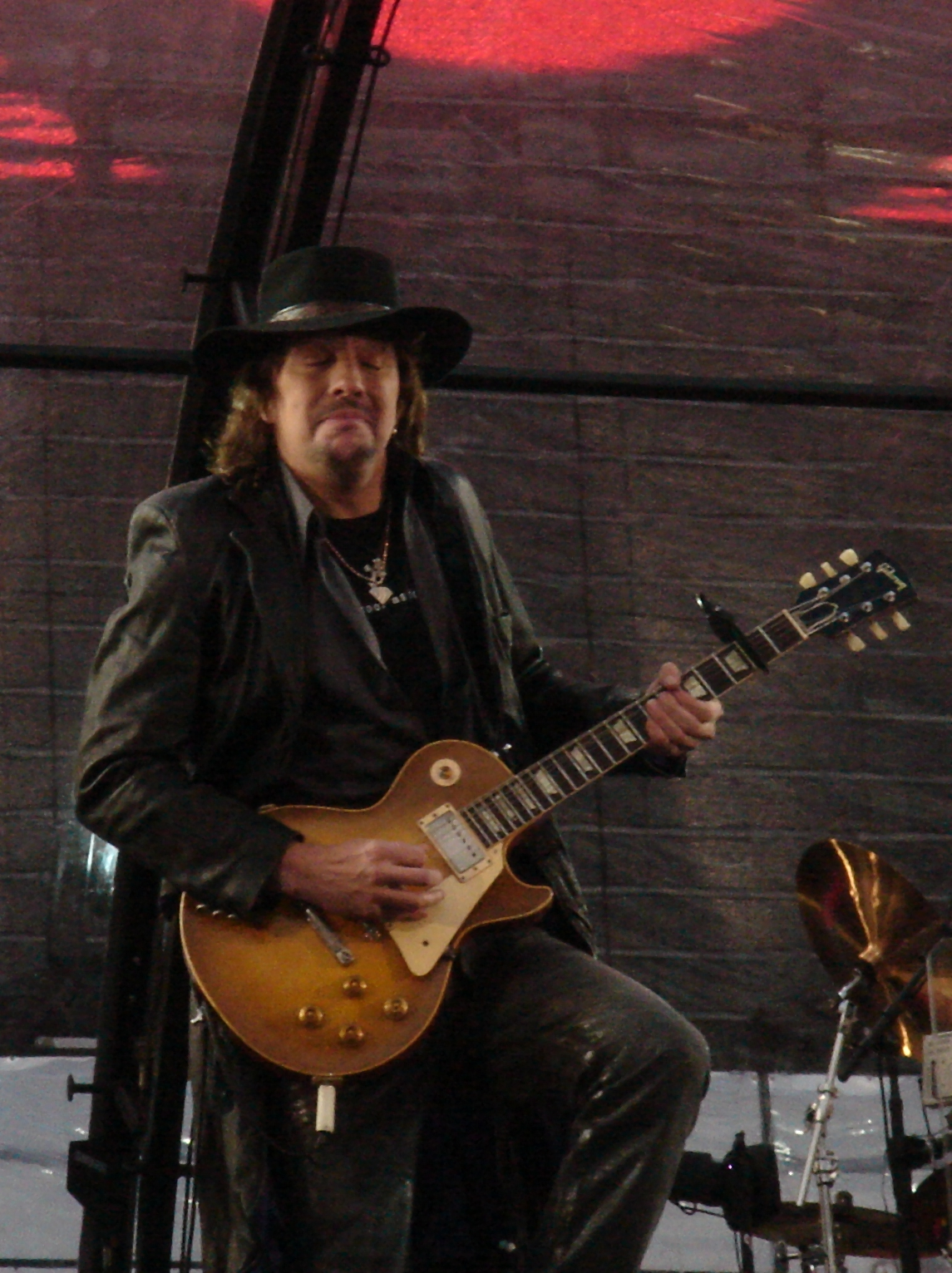 Richie Sambora live with Bon Jovi in Dublin June 2006.